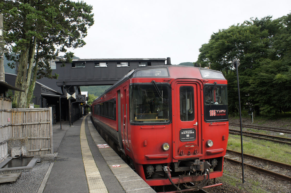 KiHa 185 Series DMU originally operated as Trans-Kyushu Limited Express stopping at Yufuin Station.